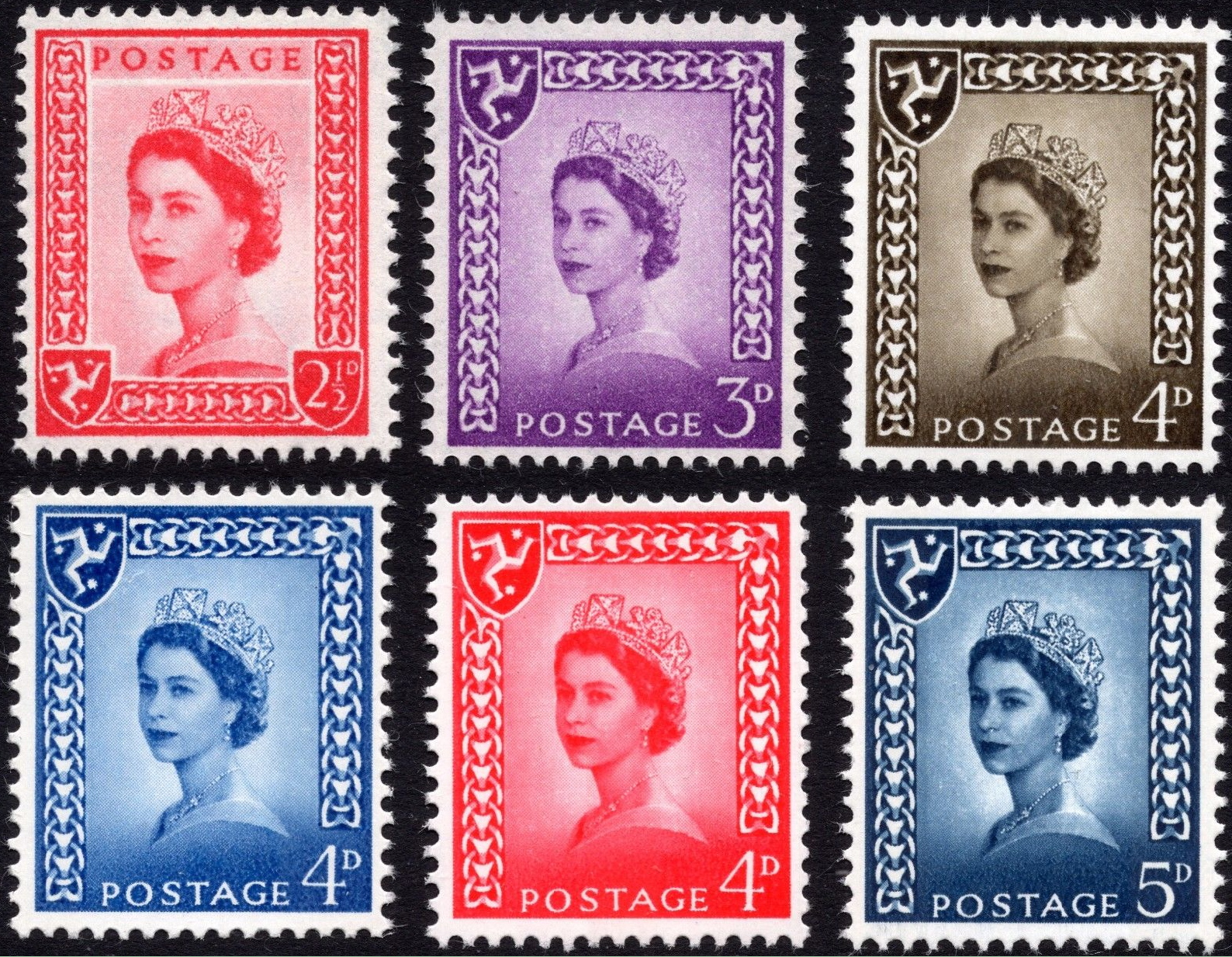 Set of Isle of Man regional issue stamps. The red twopence halfpenny and a lilac threepence were issued on 18 August 1958 and the others, of the same design but different colour and denomination between then and 1969 and is use until 1973.